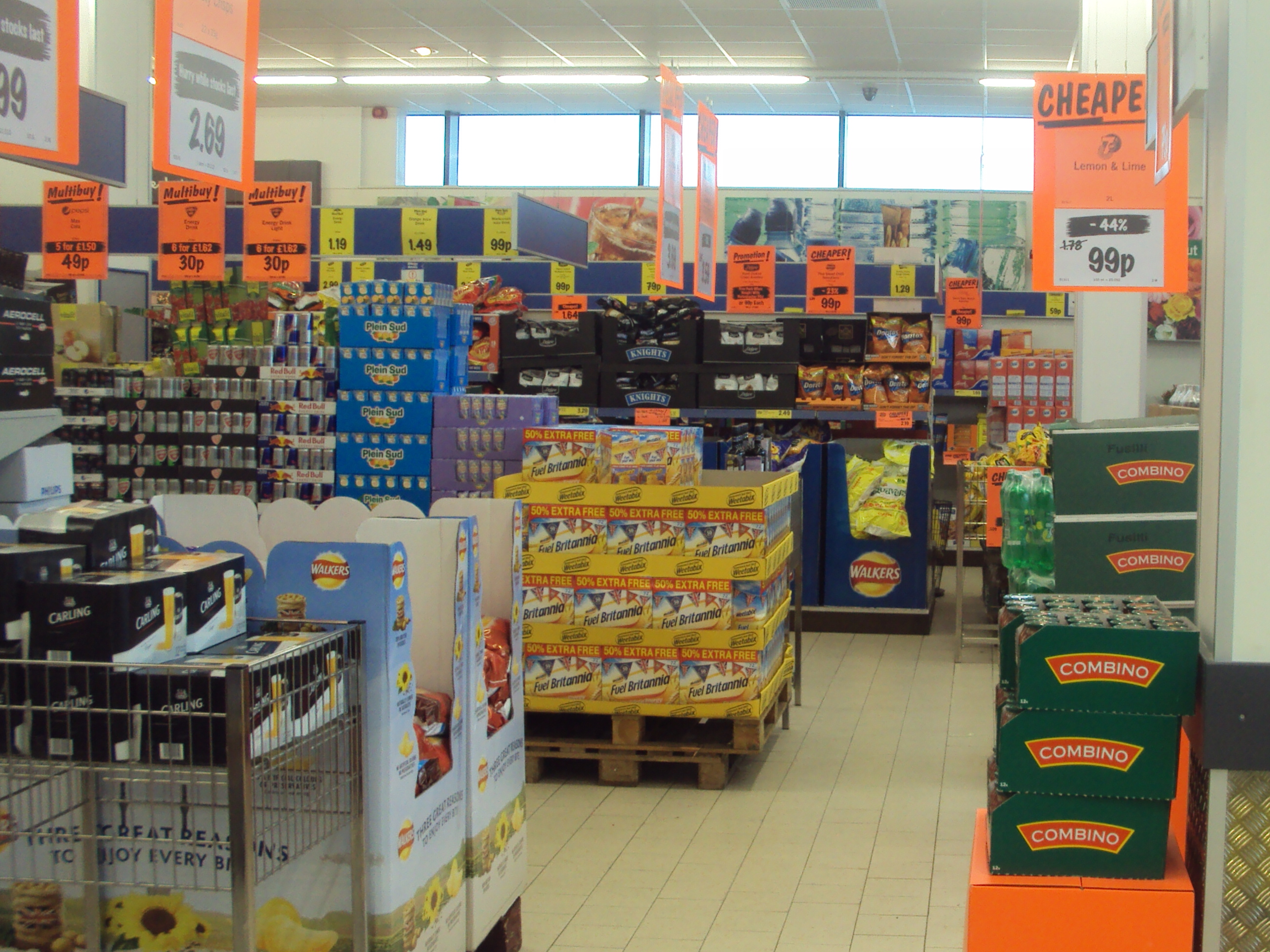 The interior of a Lidl store in Nottingham, England